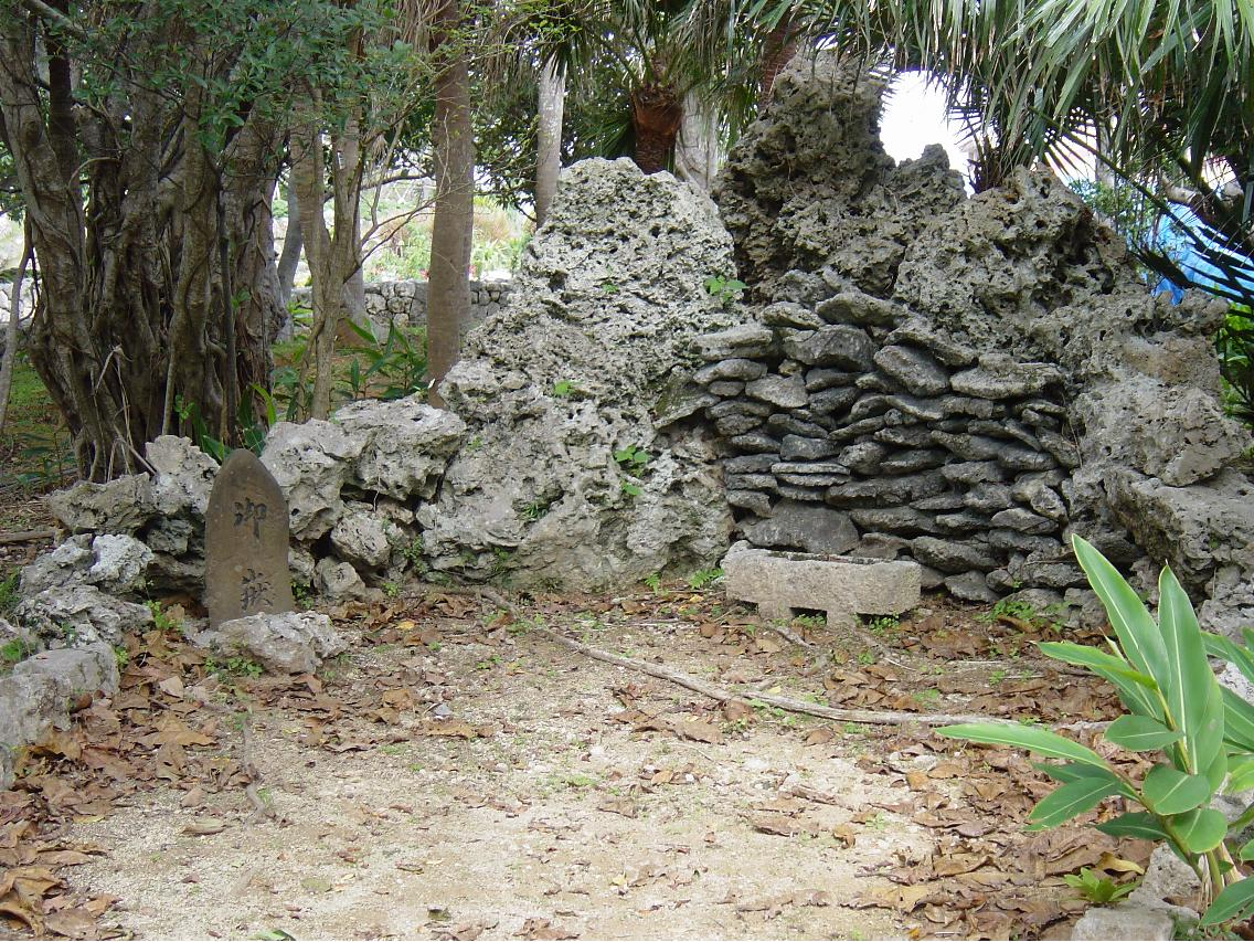 I took this picture at Ocean Expo Park in Okinawa. I release it into the public domain for use for any purpose.